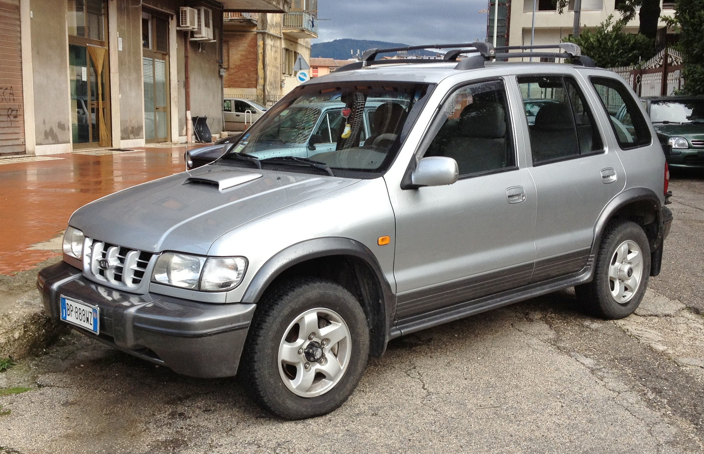 Kia Sportage JA 2.0 TDI 5door